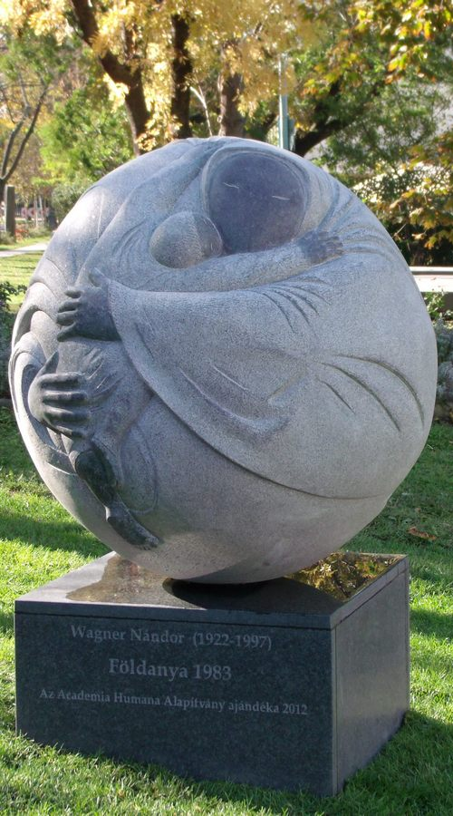 Mother Earth the statue of Nandor Wagner in I. District